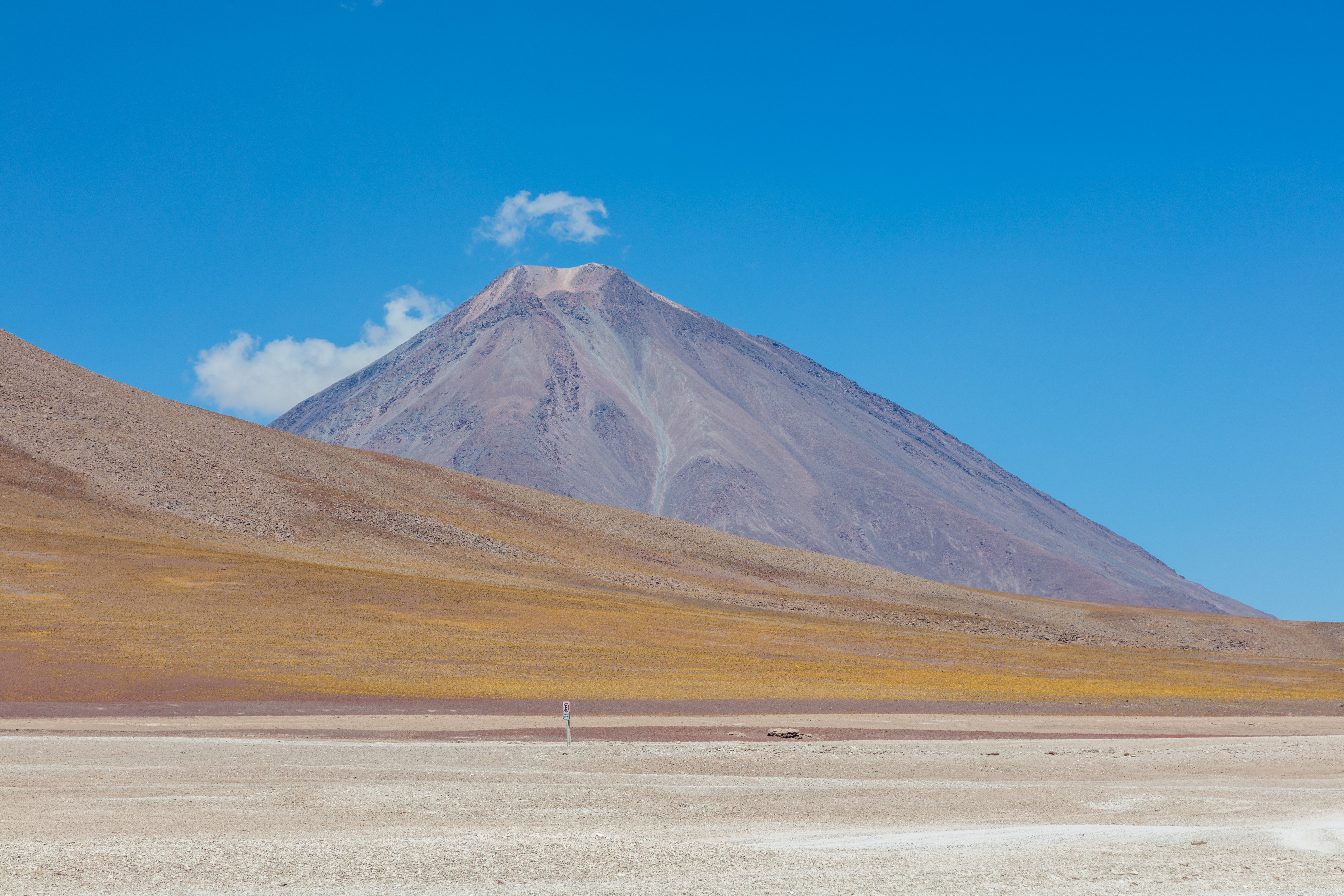 Sairecabur volcano, Bolivia